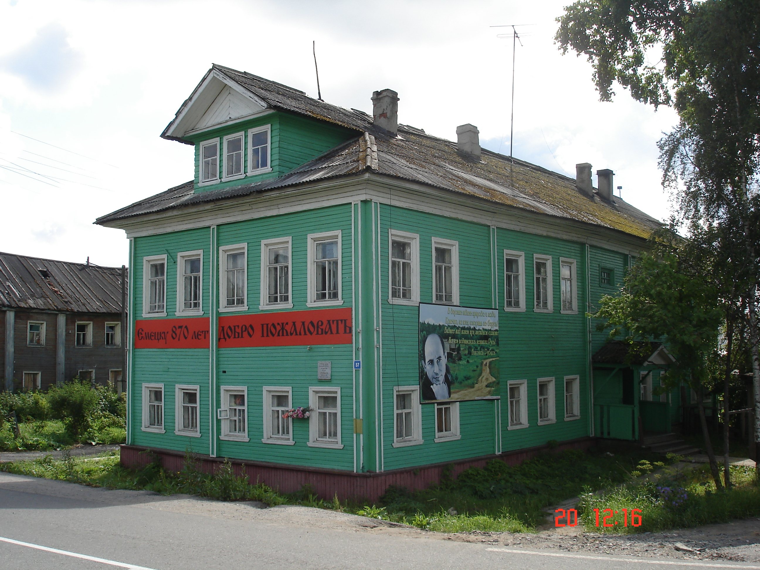 Nikolay Rubtsov memorial house in Yemetsk, Russia.